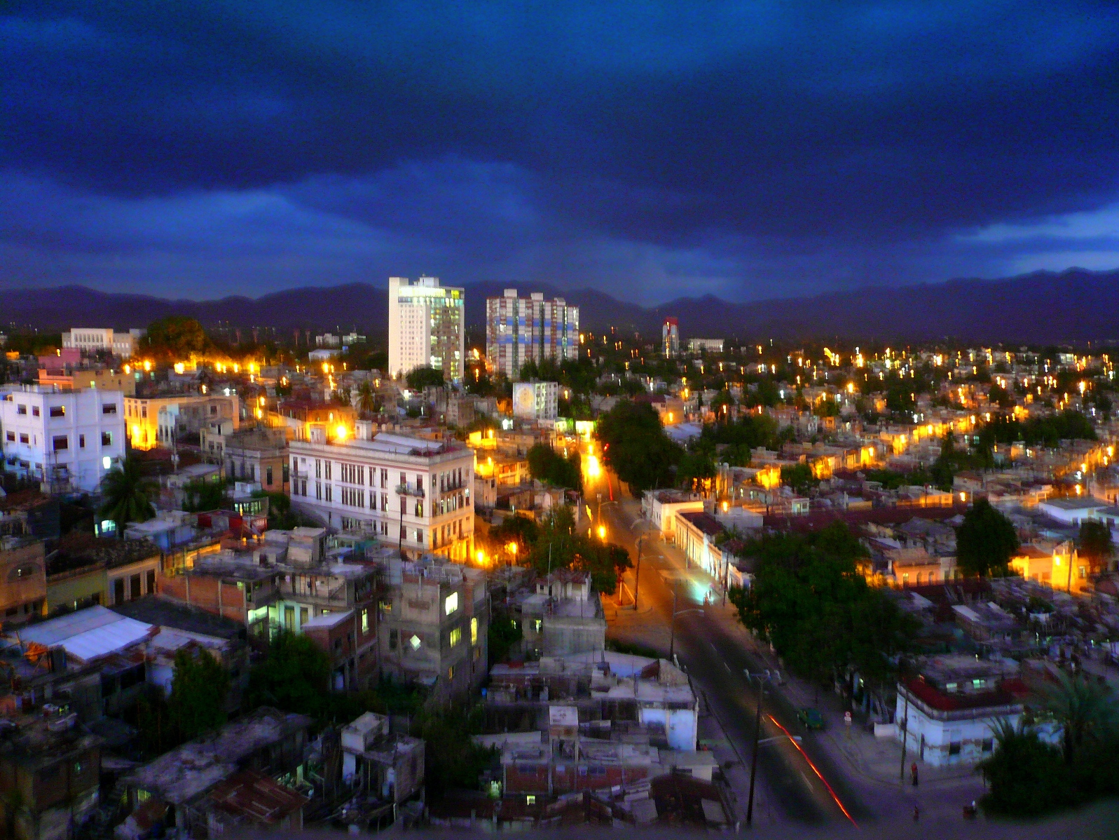 View of Santiago de Cuba and sky at night.